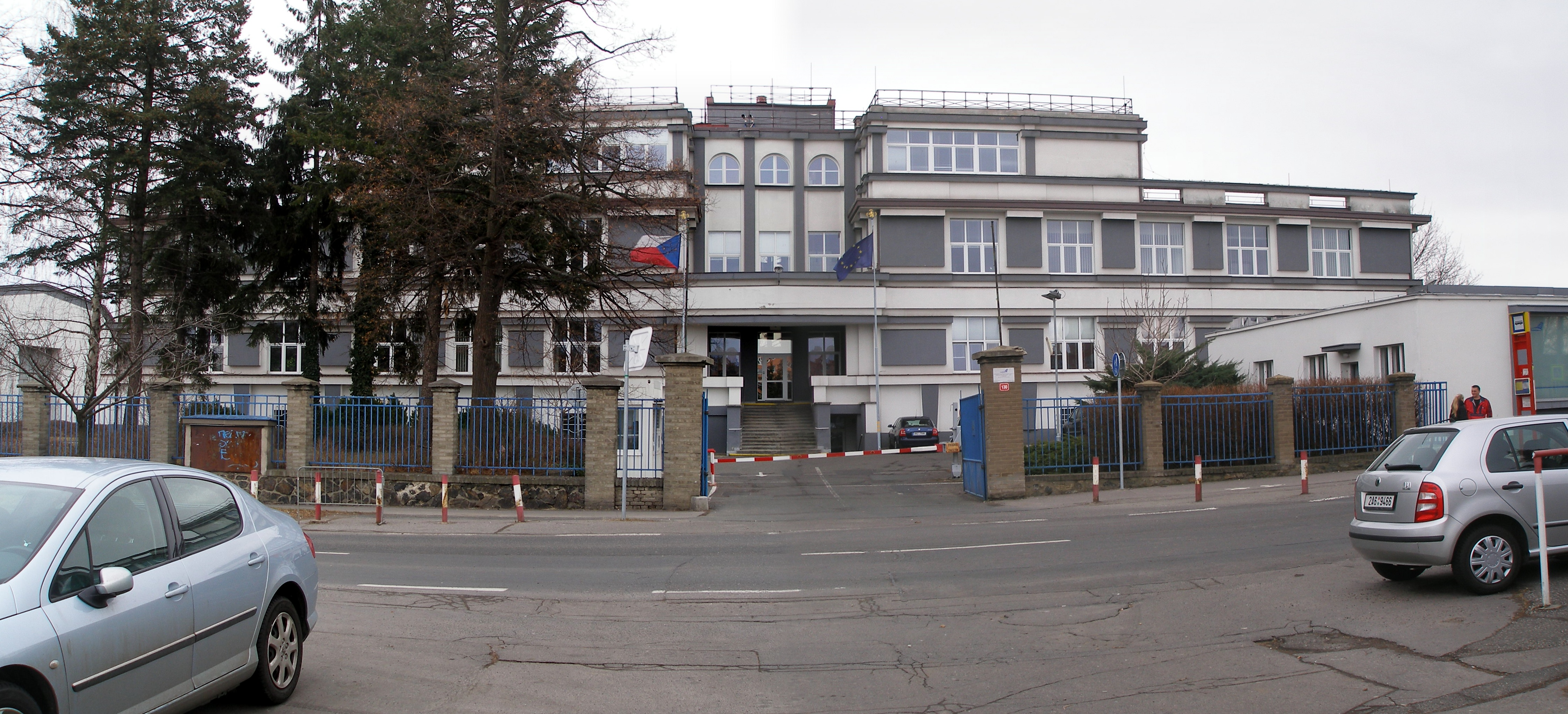 Air Accidents Investigation Institute head office in Beranových 130, Prague 9 - Letňany